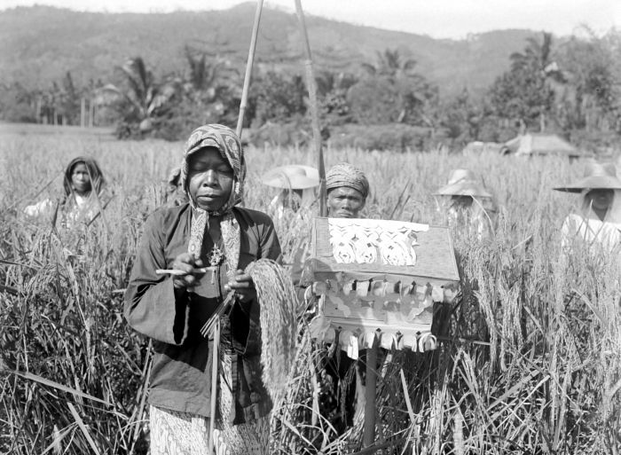 Sacrificial house for the goddess of rice Dewi Sri in the rice fields, Jawa